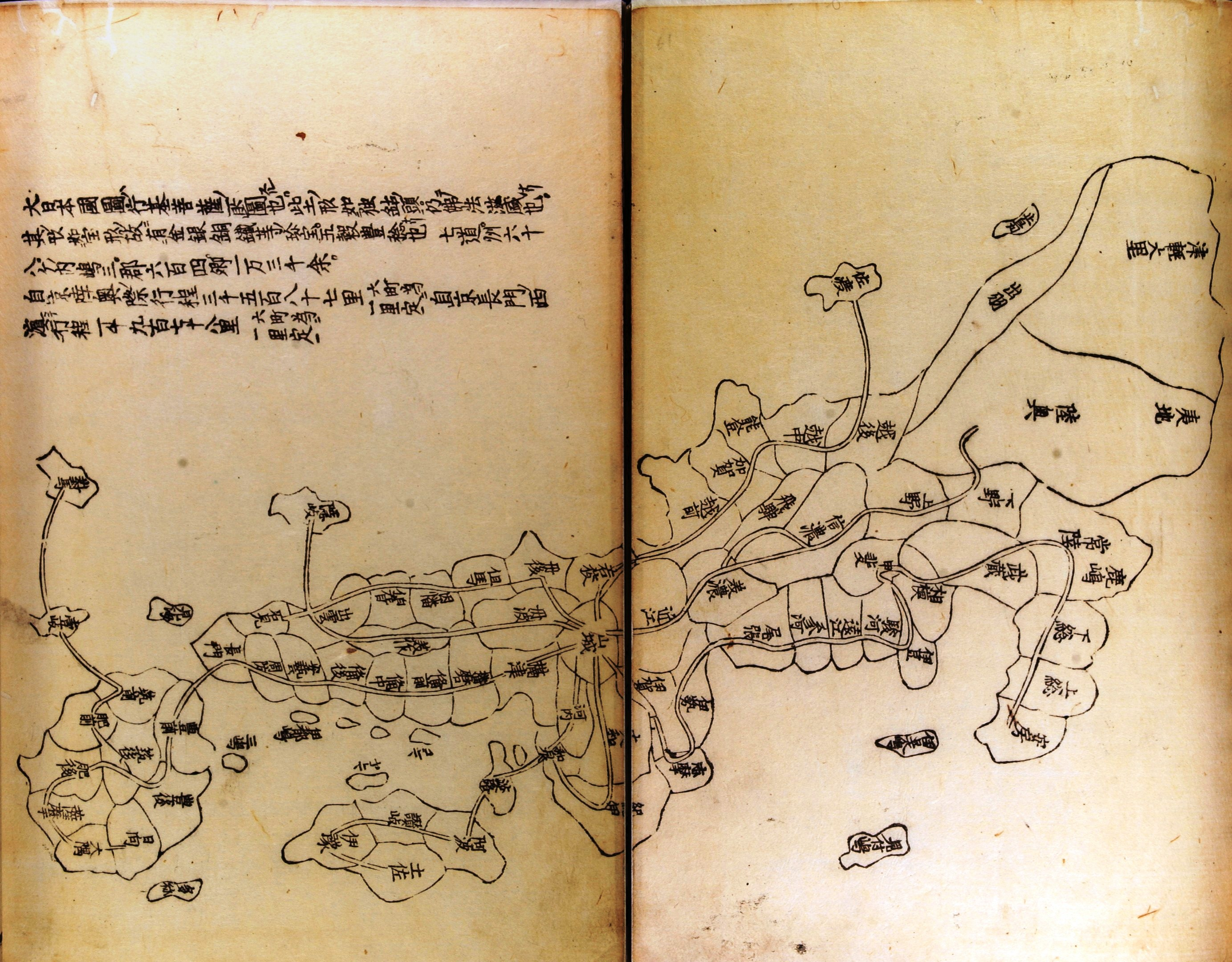 Transcript of the oldest map in Japan, Gyoki-zu(8th century).